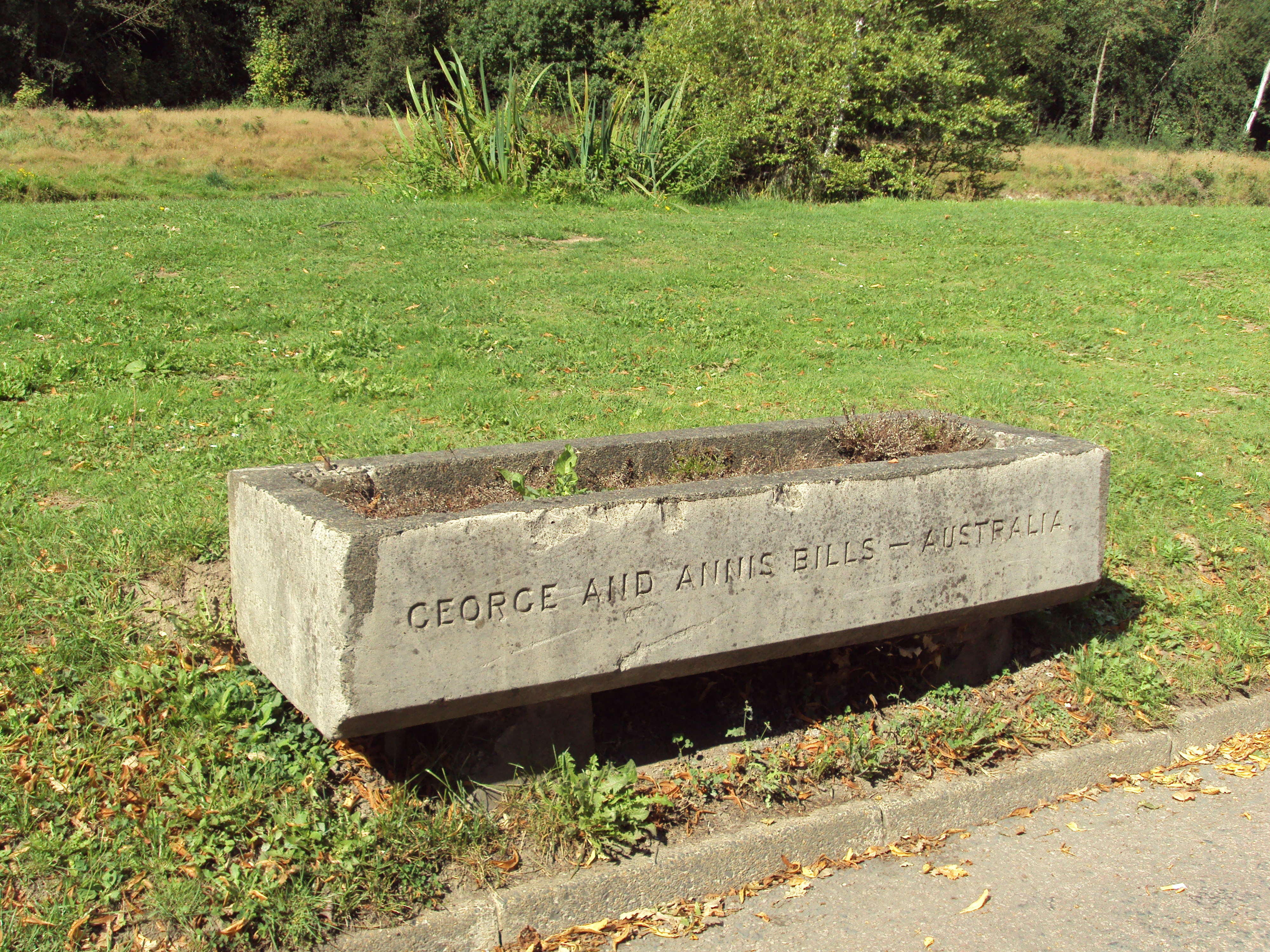 Metropoliation trough on Eridge road Tunbridge Wells. Metro... inscription is on the left hand end. Passed this one Dozens of times and Finally got it! 1 of 2 Pics.